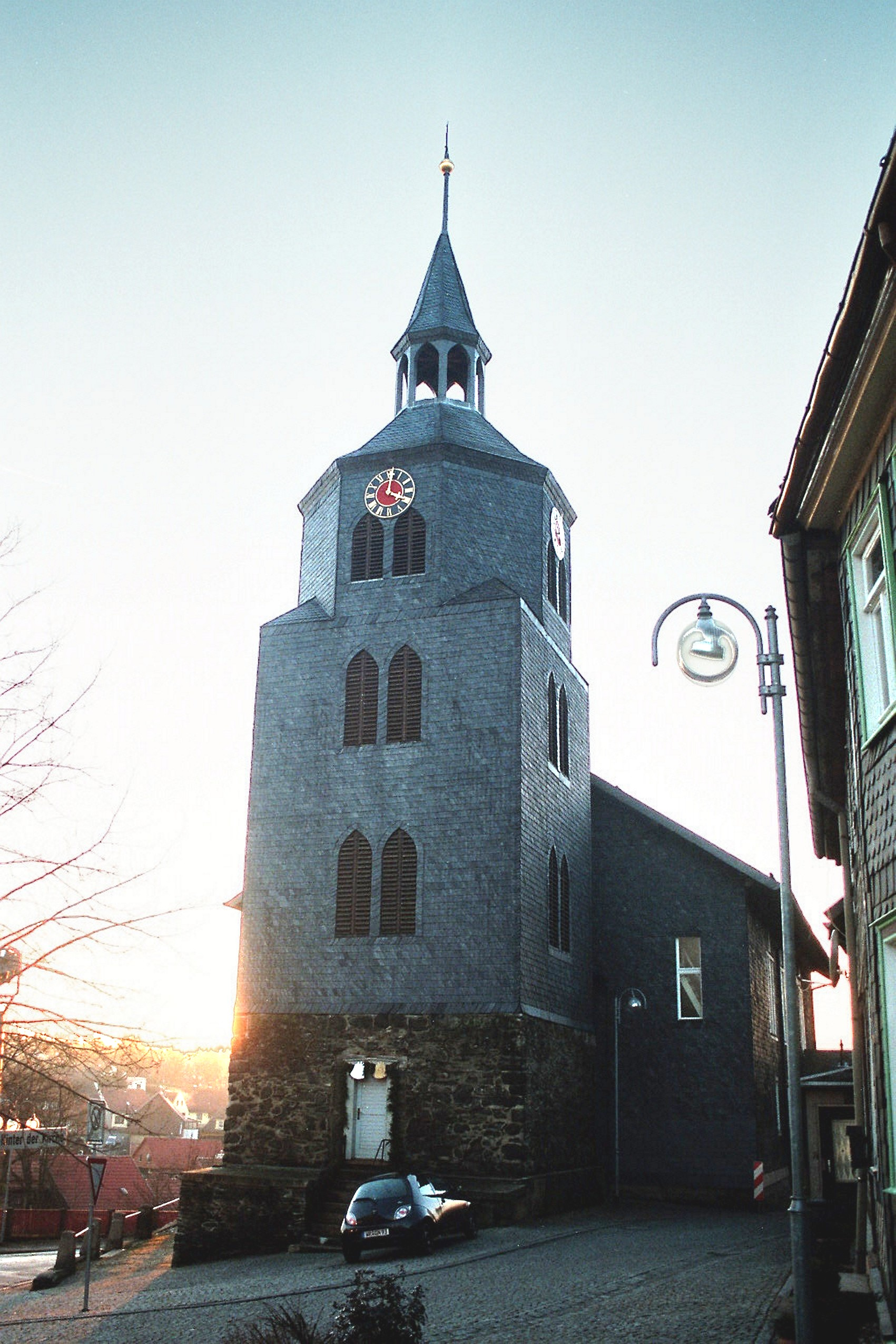 Benneckenstein (Harz), die St.-Laurentius-Kirche